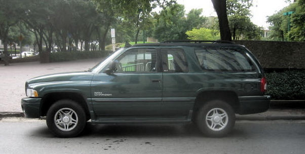 1999-2001 Dodge Ram Charger (Mexico)